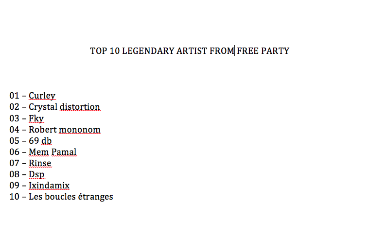 01 – Curley 02 – Crystal distortion 03 – Fky 04 – Robert mononom 05 – 69 db 06 – Mem Pamal 07 – Rinse 08 – Dsp 09 – Ixindamix 10 – Les boucles étranges